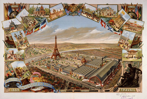 View of the World's Fair, Paris, France, engraving.